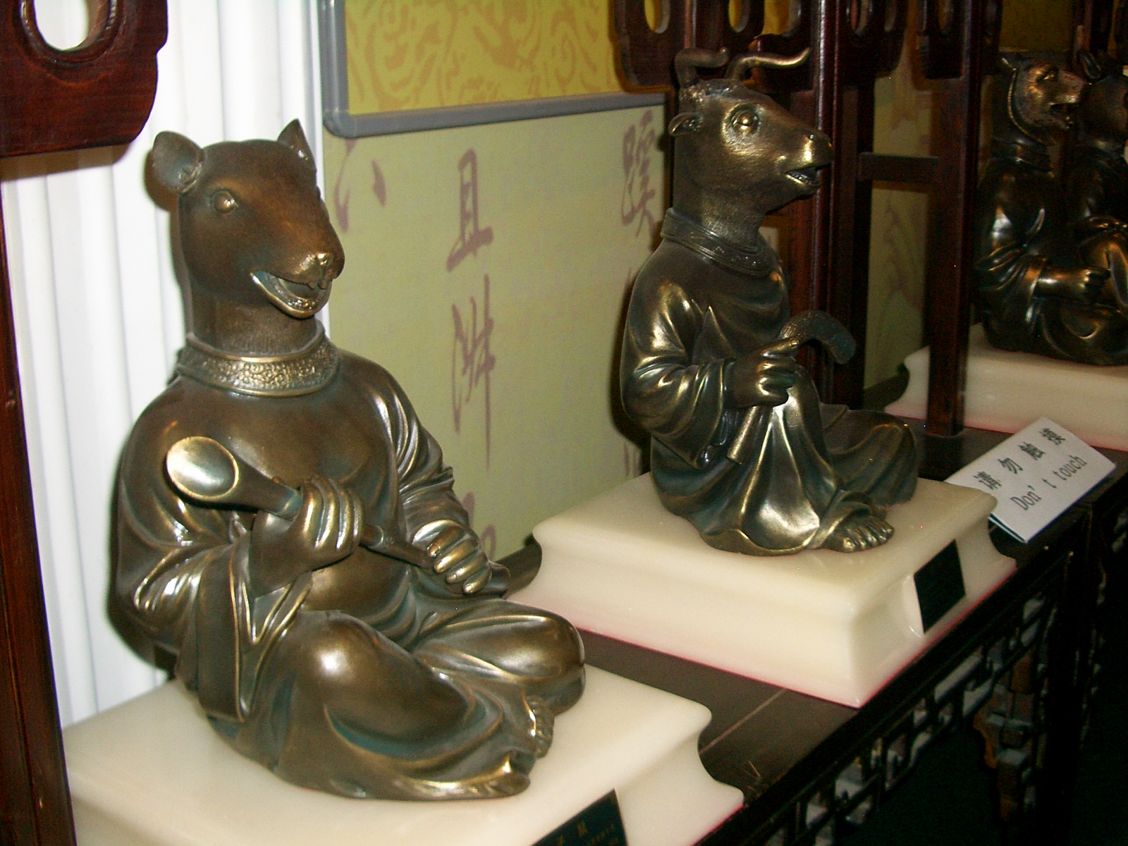 Replicas of the bronze figures from the Haiyantang fountain, at the exhibiton on the Yuanmingyuan grounds